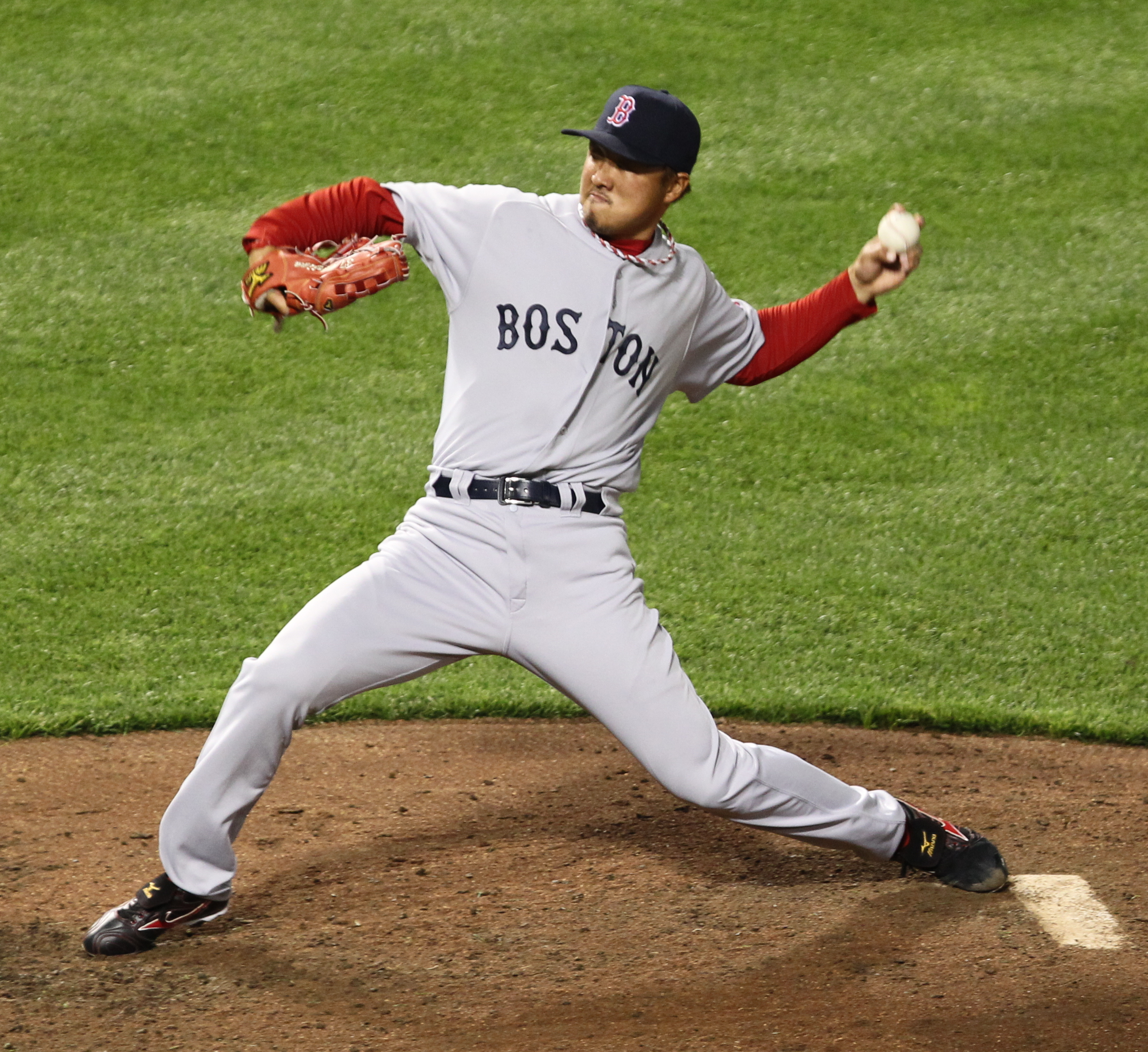 Pitcher Hideki Okajima #37 of the Boston Red Sox delivers to a Baltimore Orioles batter in a game at Oriole Park at Camden Yards on April 26, 2011 in Baltimore, Maryland.